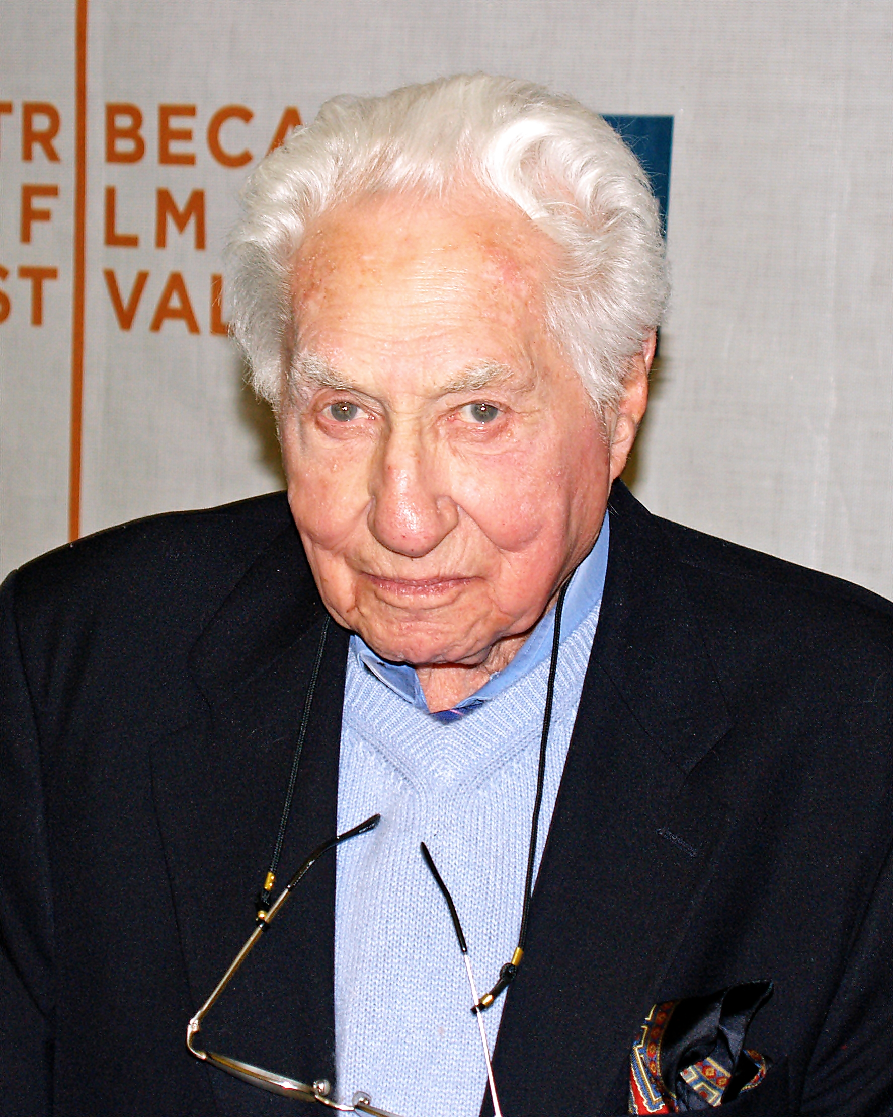 Dead people I photographed: Budd Schulberg (March 27, 1914 – August 5, 2009) was an American screenwriter, television producer, novelist and sports writer. He was known for his 1941 novel, What Makes Sammy Run?, his 1947 novel The Harder They Fall, his 1954 Academy-award-winning screenplay for On the Waterfront, and his 1957 screenplay for A Face in the Crowd.